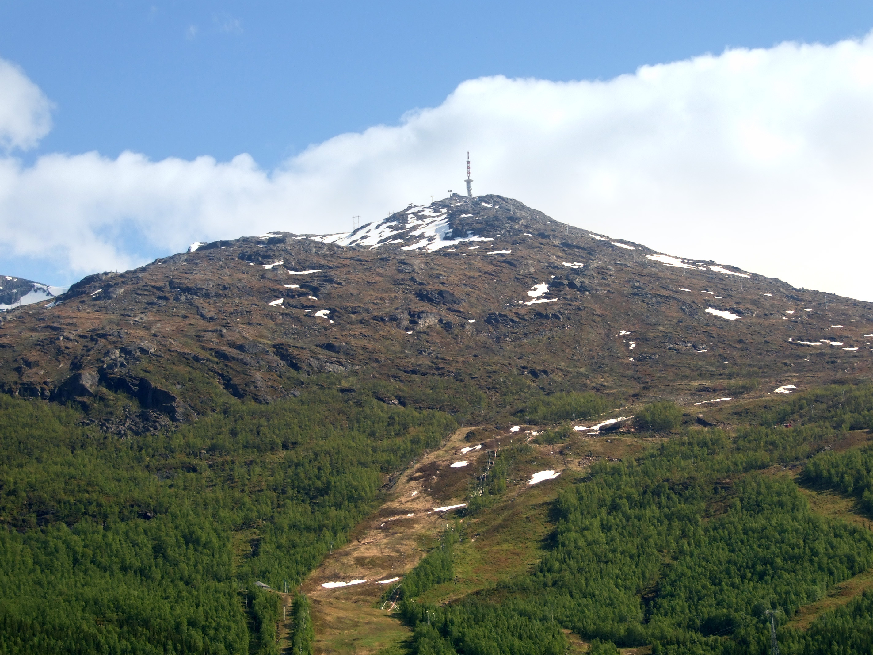 Fagernes mountain in Narvik, Norway